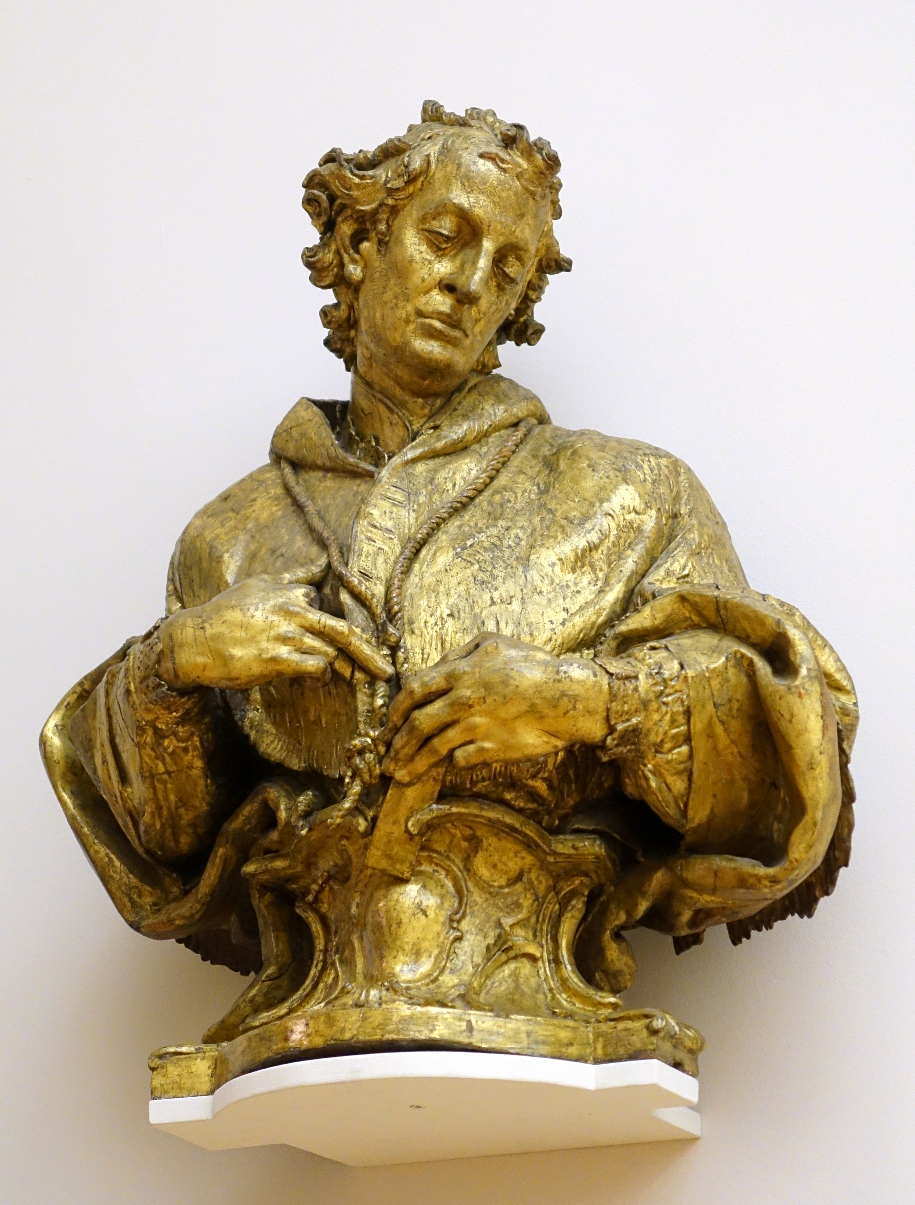 Exhibit in the Bode-Museum, Berlin, Germany. This work is in the public domain because the artist died more than 100 years ago.